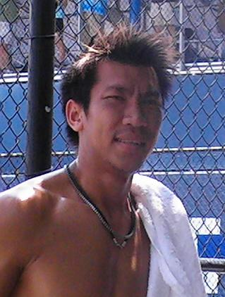 Paradorn Srichaphan at the 2006 Legg Mason Championships in Washington, DC